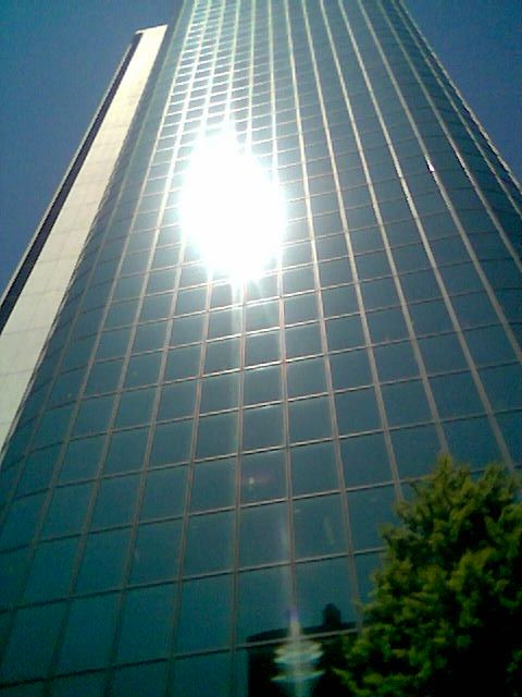 Northern face of 200 Queen Street, Melbourne, as seen from level 10 open air garden. The midday sun is reflected on the glass wall. Image taken with my Nokia CDMA 6255.